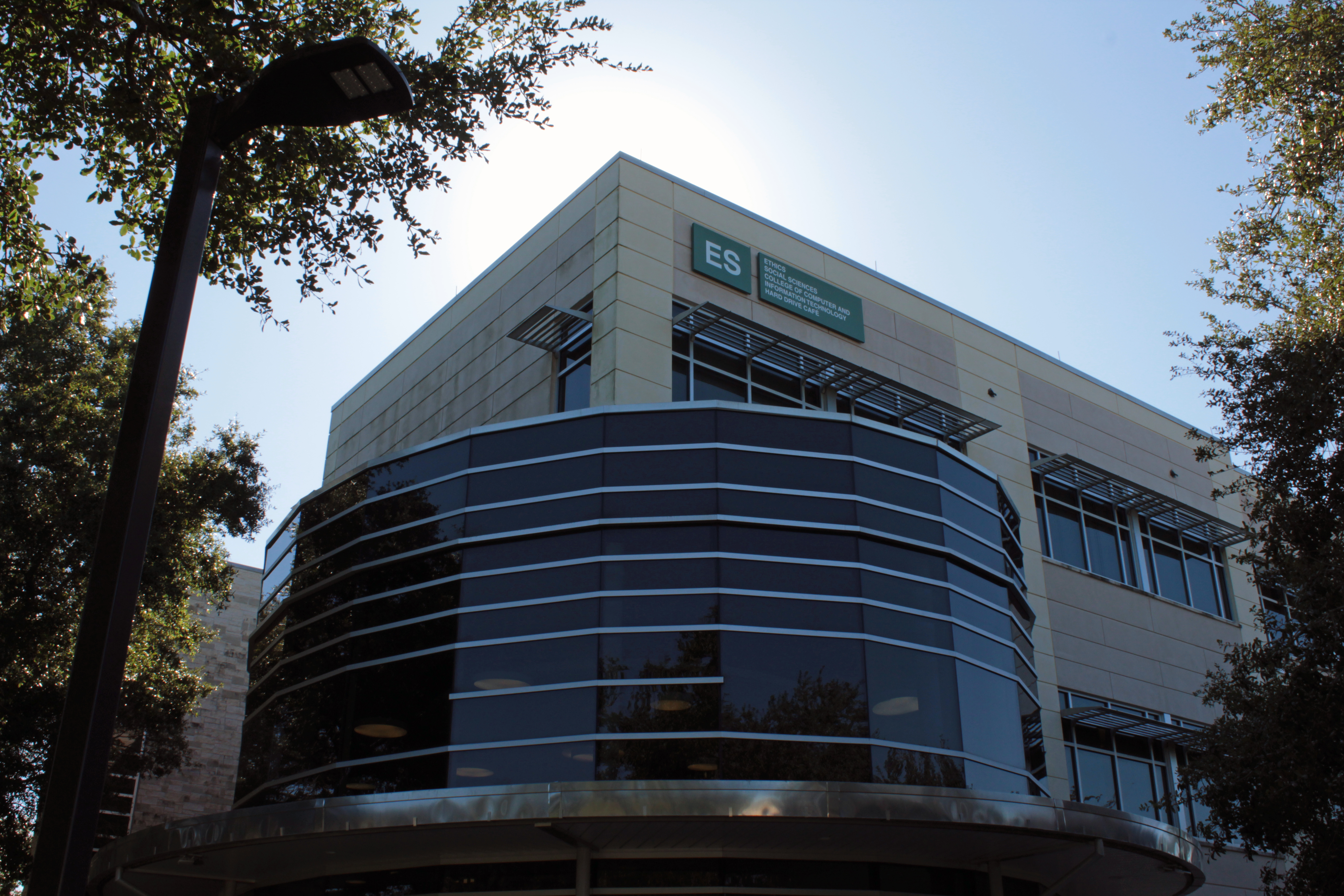 The ES (Ethics and Social Sciences) building at the St. Petersburg College (SPC) Clearwater Campus in Clearwater, Florida.